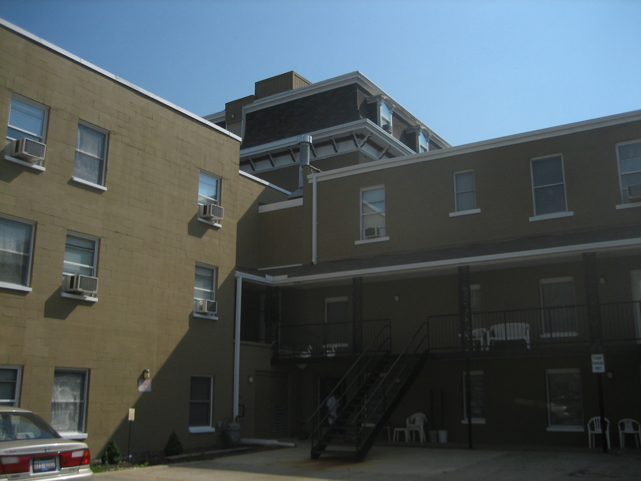 Nachusa House, Dixon, Illinois, United States. U.S. National Register of Historic Places.